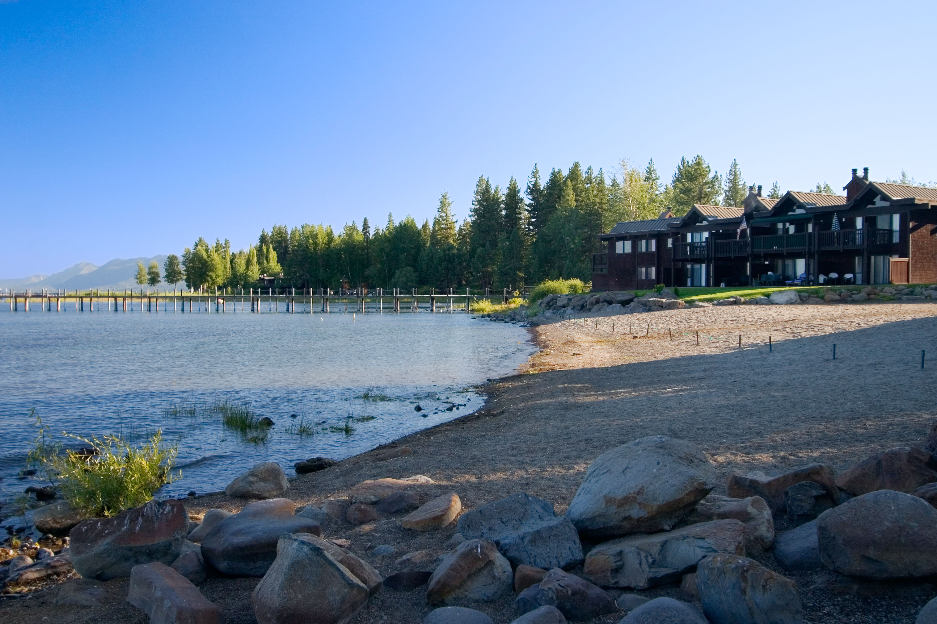 A motel next to Lake Tahoe — in Tahoe City, Placer County, California. Credits Photo by Sean O'Flaherty AKA Seano1